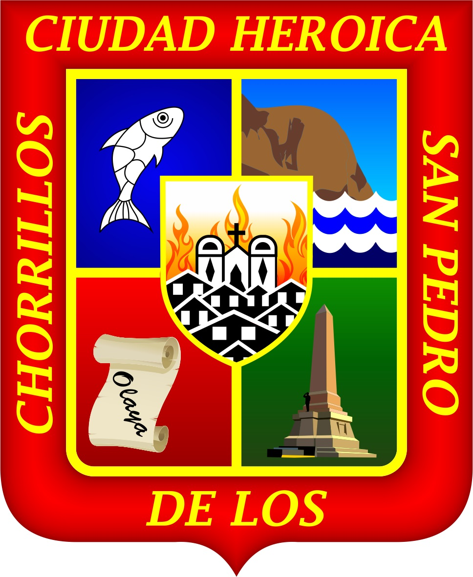 Coat of Arms of Chorrillos District, Perú